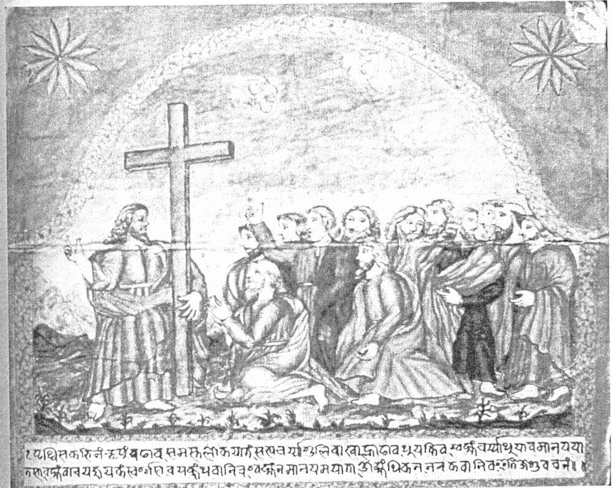 This is an image of the frontispiece of "Satya Sakshi Parmeshvarya Mahima", a treatise on monotheism composed in Newari in 1740 for King Ranajit Malla of Bhaktapur. It was written by Padre Vito da Recanati, a Catholic Capuchin missionary, with the assistance of his Newari language teacher in Bhaktapur, Brahman Balagovinda.